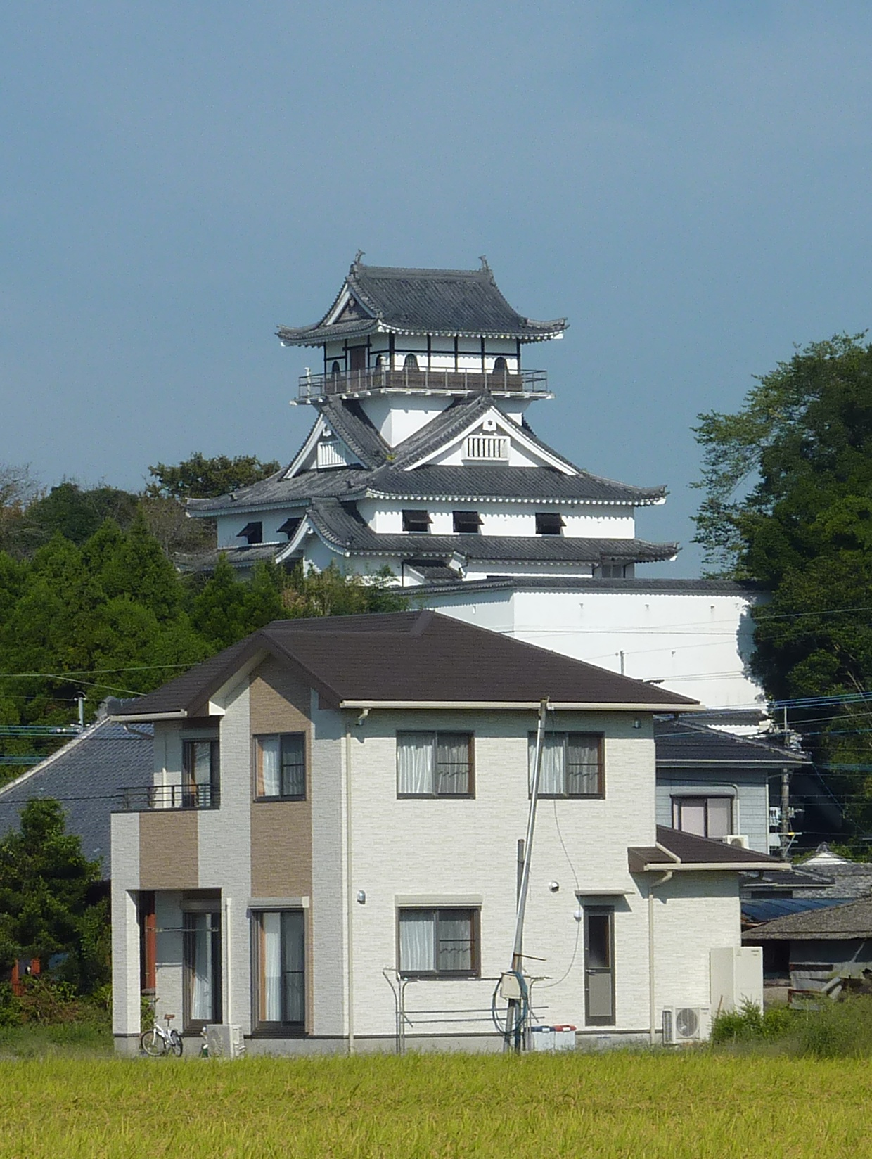 Miyakonojo City Takajo Museum